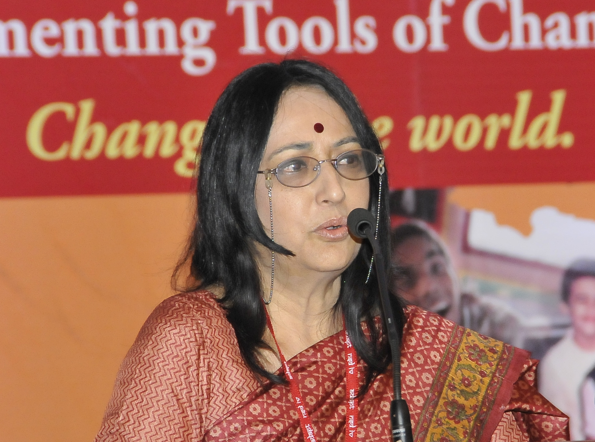 Photo of Dr. Mithu Alur at the North South Dialogue IV, Goa in February, 2012 to be used in